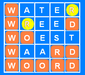 Short explanation: 1. W has been already given and is correct. R is present in the word but is by itself. 2. D is correctly, and R is again by itself. 3. O is at the correct place. 4. A is not (this was also already the case) in the first word: the rest is correct. 5. At the third word, O is already correct. A second O is therefore is the only one needed.